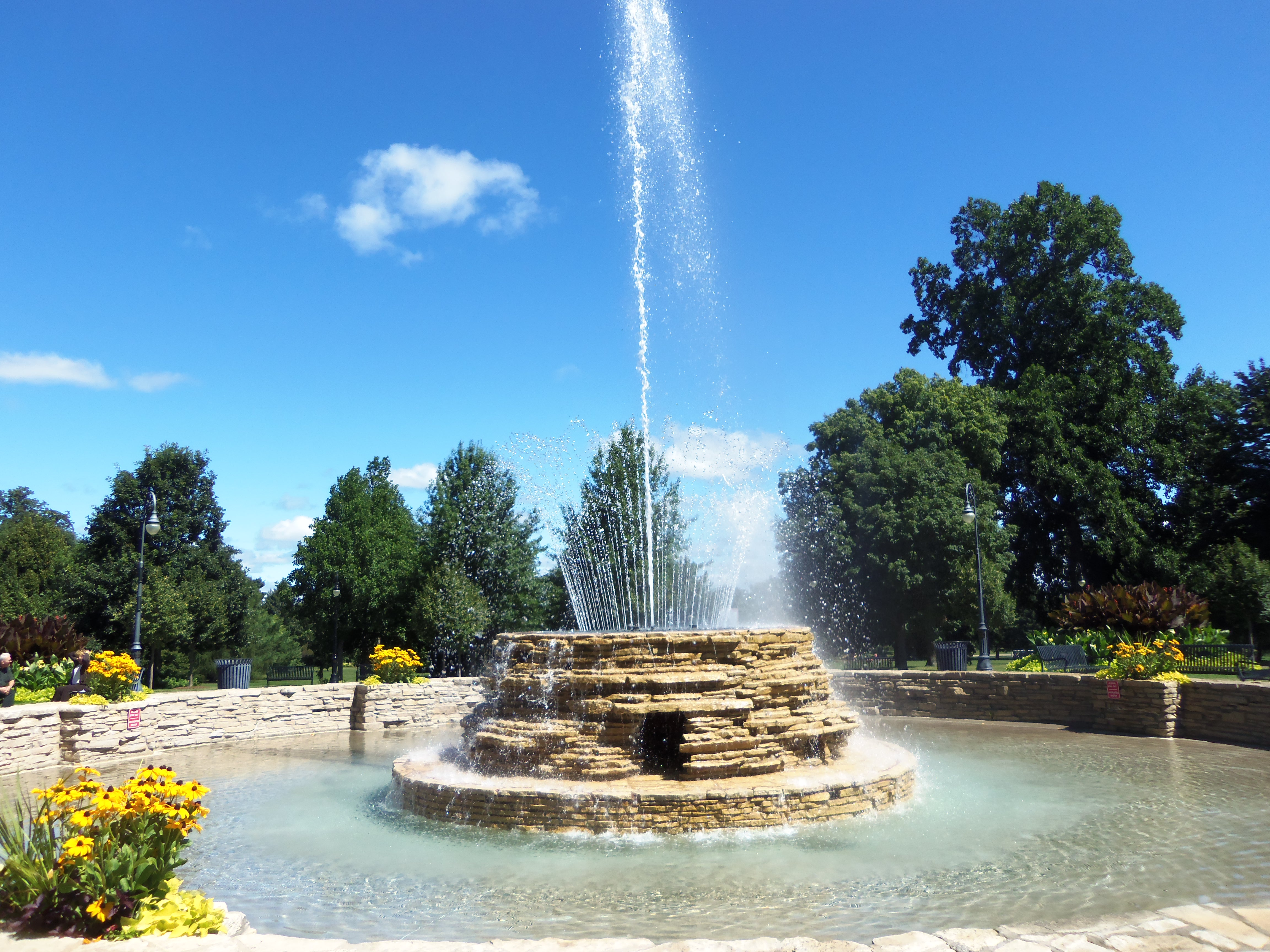 The fountain at the south end of Vander Veer Botanical Park in Davenport, Iowa. It was a project of the Civilian Conservation Corps during the Great Depression.